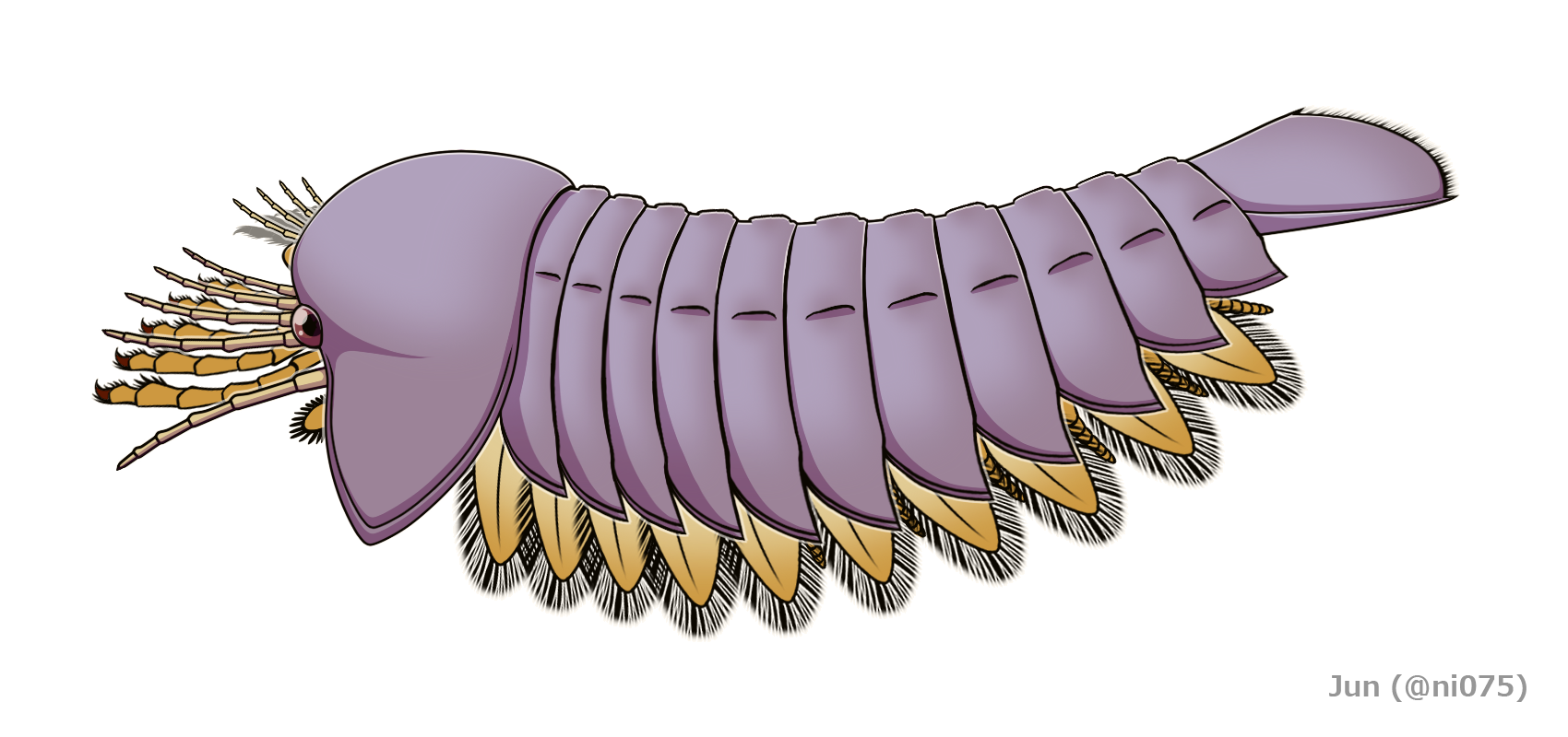 Reconstruction of Sanctacaris uncata, a cambrian habeliidan (basal chelicerate) arthropod.